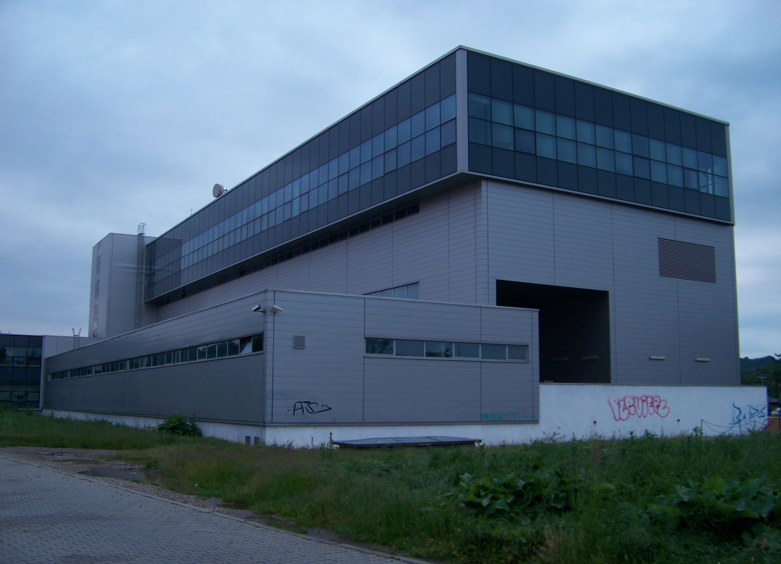 Prague-Holešovice. Jankovcova 960/40, from Plynární street. Holešovice substation (110 kV) and PRE museum